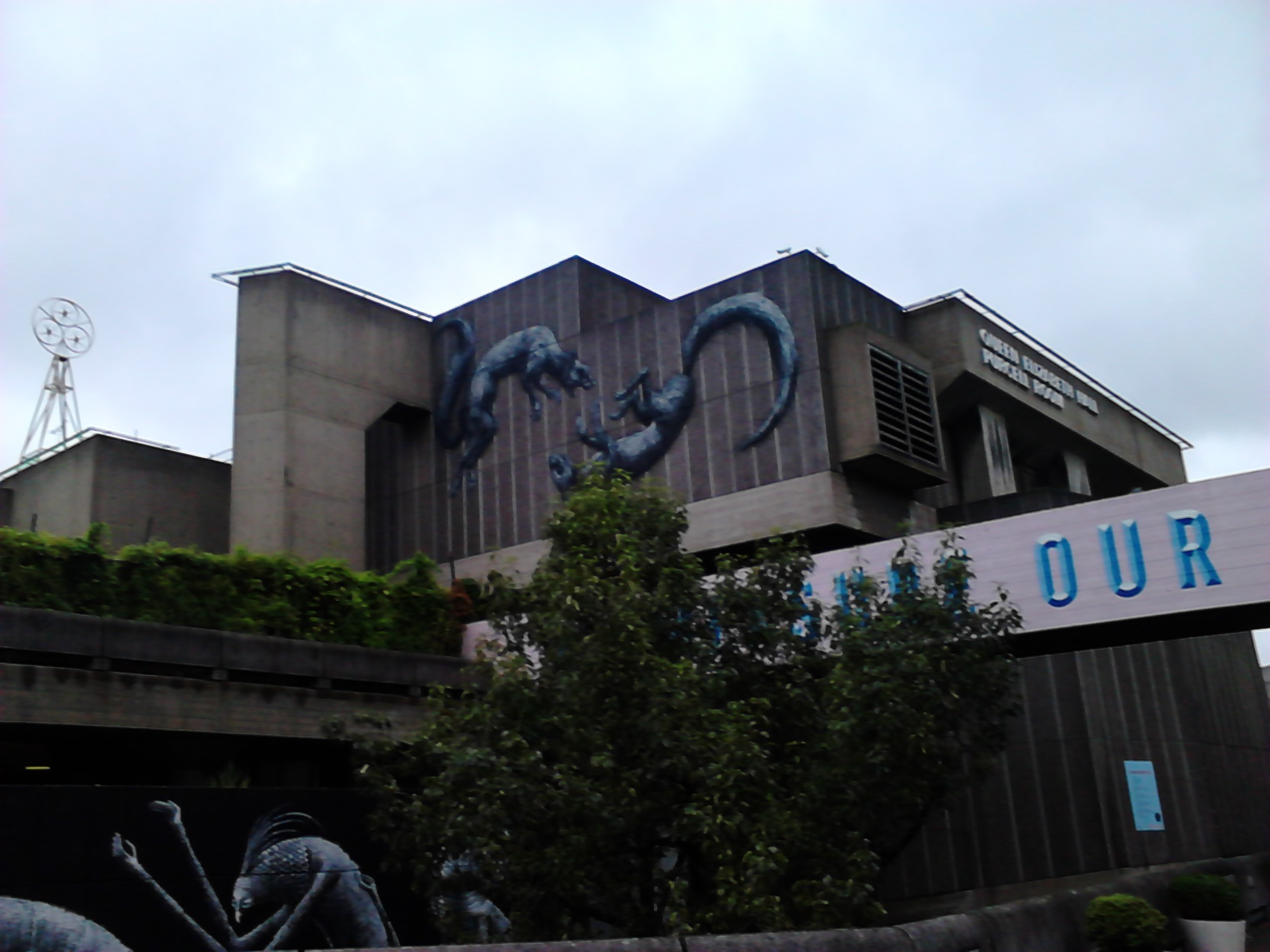 Lambeth, London, UK